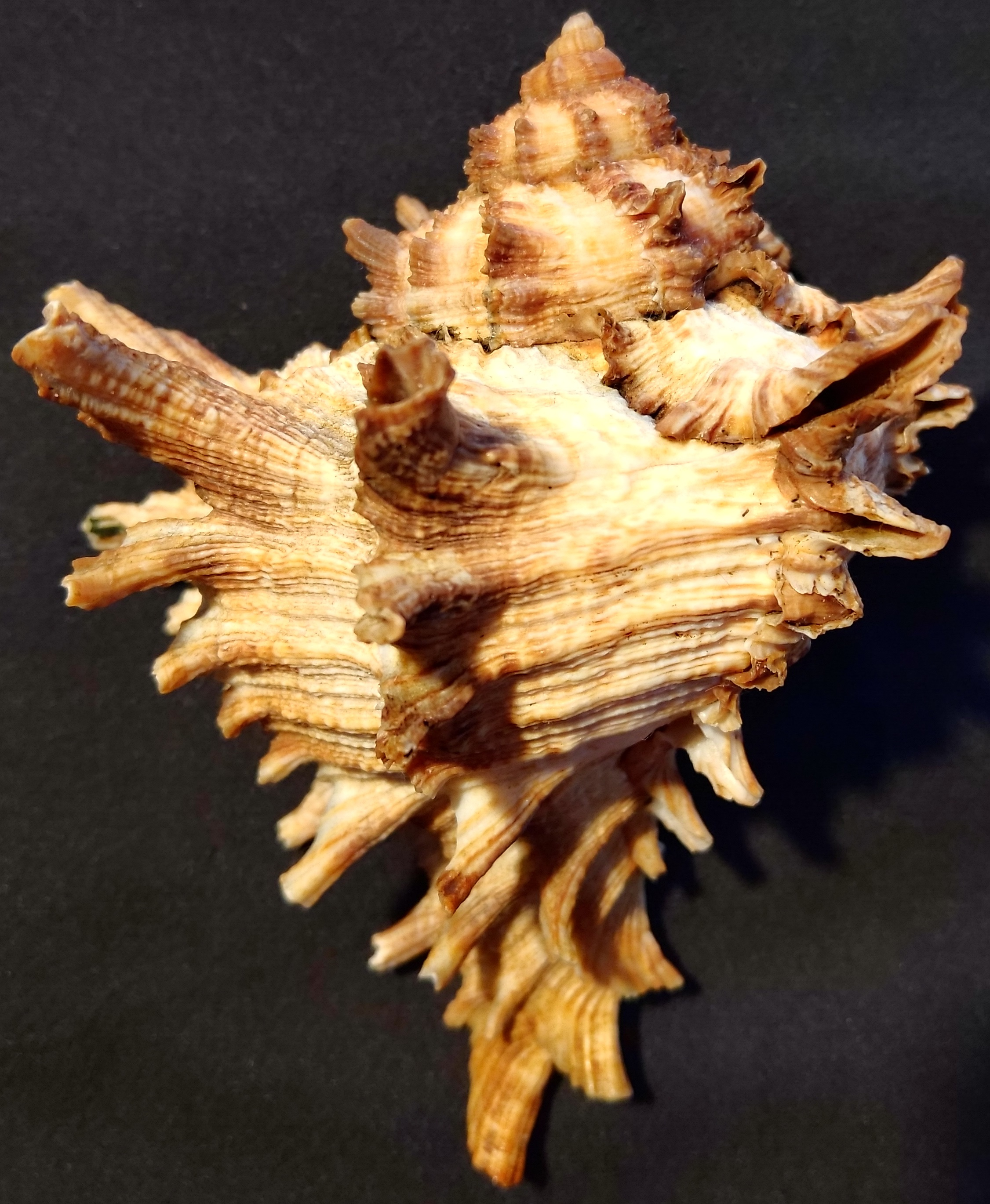 Hexaplex Duplex Back